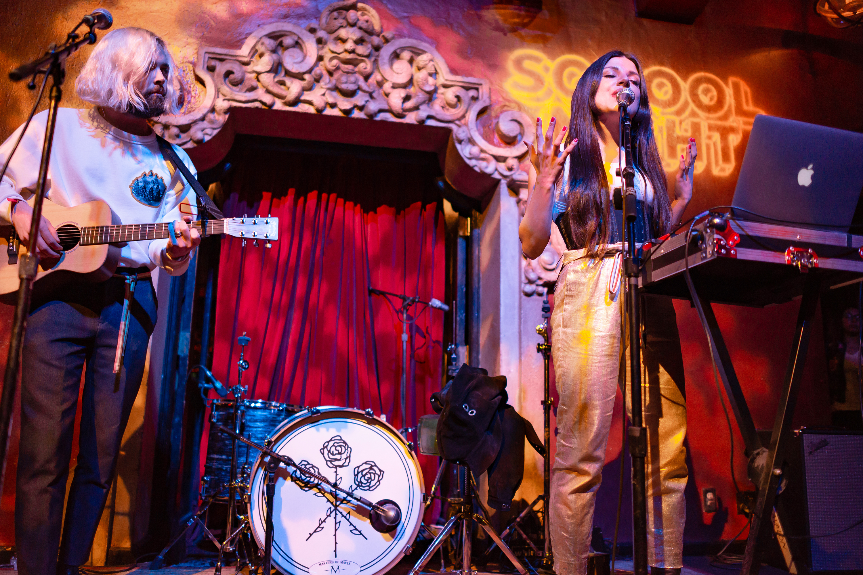 Flora Cash performing live at "It's A School Night" at Bardot Hollywood in Los Angeles, California, on Monday, March 5, 2018.